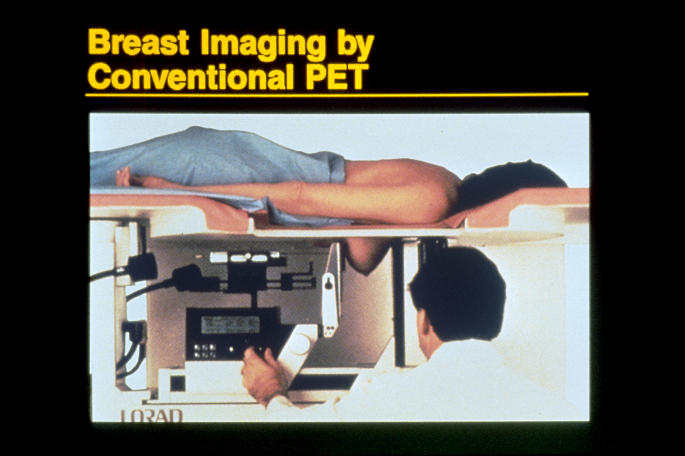 Title Breast Imaging Using PET Description A woman lying face down for conventional Positron emission tomography (PET) scan of her breast with a doctor operating machine to position her breast. Topics/Categories Test or Procedure -- Imaging Procedures Type Color, Photo Source Dr. Joseph Frank. National Institutes of Health